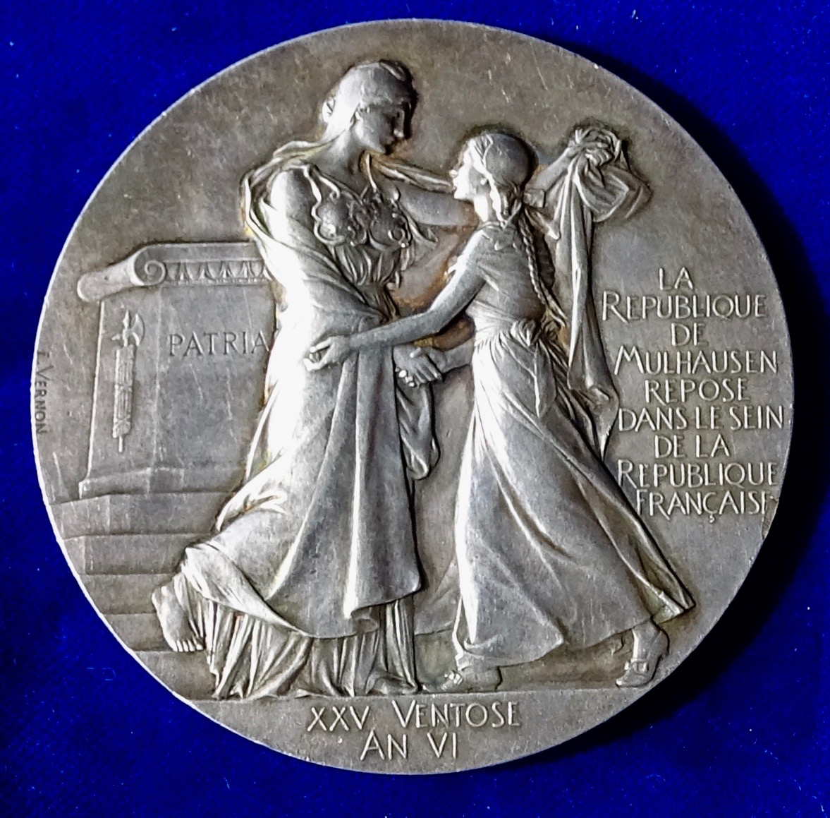 France, Silver Medal 1898 by Frederic Vernon 100 Years Mulhouse within Alsace. Medallion d. = 68 mm. 146.80 g Ag. The republic of Mulhouse gets embraced by the French Republic. At l. on altar: "PATRIA". 9 lines at r.: "LA REPUBLIQUE DE MUHLHAUSEN REPOSE DANS LE SEIN DE LA REPUBLIQUE FRANCAISE". 2 lines in exergue: "XXV VENTOSE AN VI"./ The arms of Mulhouse in front of a city view. 6 lines above: "CENTIEME ANNIVERSAIRE DE LA REUNION LIBRE ET VOLONTAIRE DE MULHOUSE A LA FRANCE". 2 lines below: "15 MARS 1798 - 1898". At the edge: "ARGENT". Wurzbach 6430 (Bronze) Artist: F. Vernon (Frederic Charles Victor de Vernon), 1858 Paris - 1912 Paris Condition: EXTREMELY FINE+. Old patina. A tiny chip at 4 o'clock.